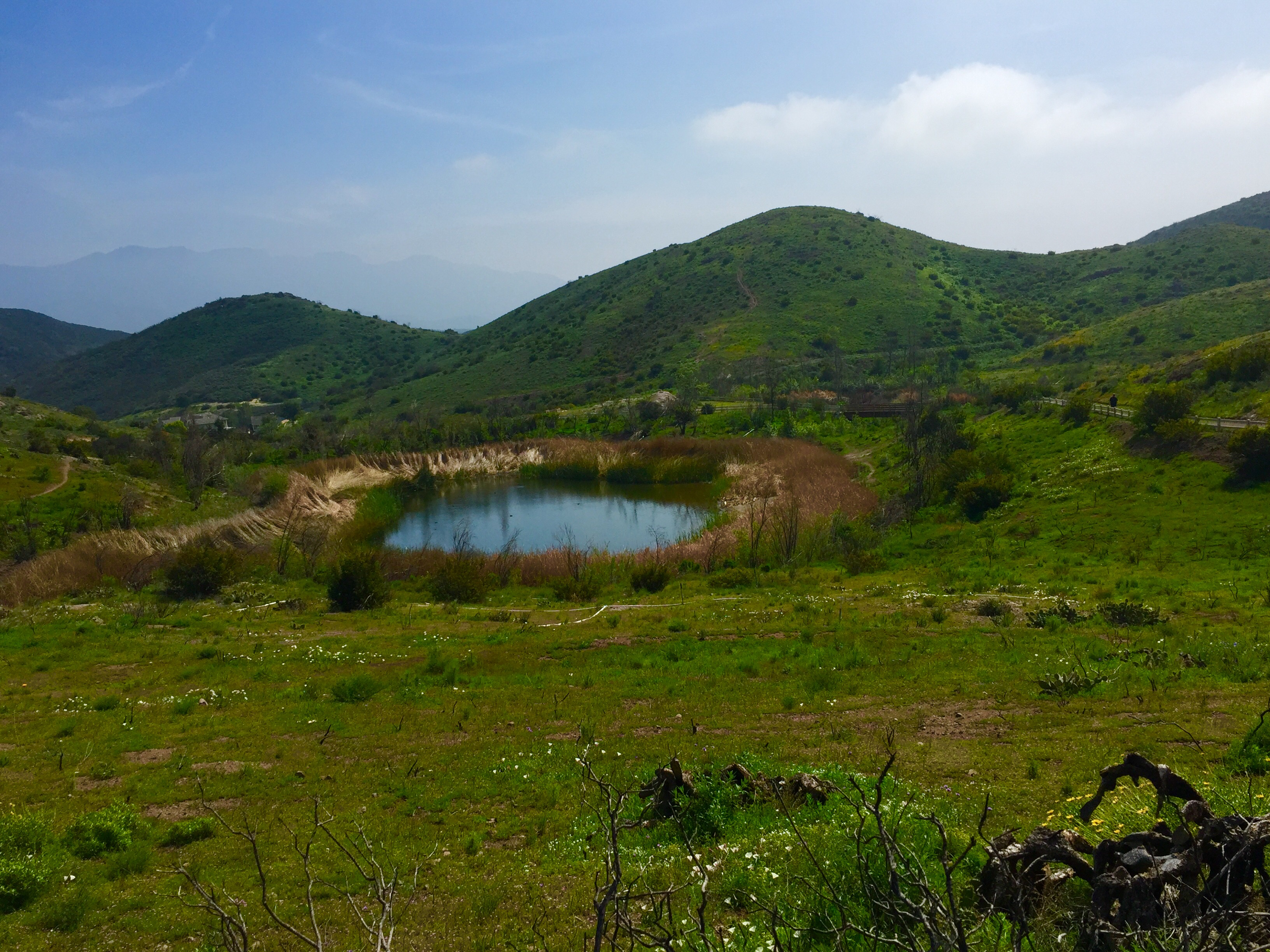 View of Twin Ponds in the Dos Vientos Open Space in western Newbury Park, California.